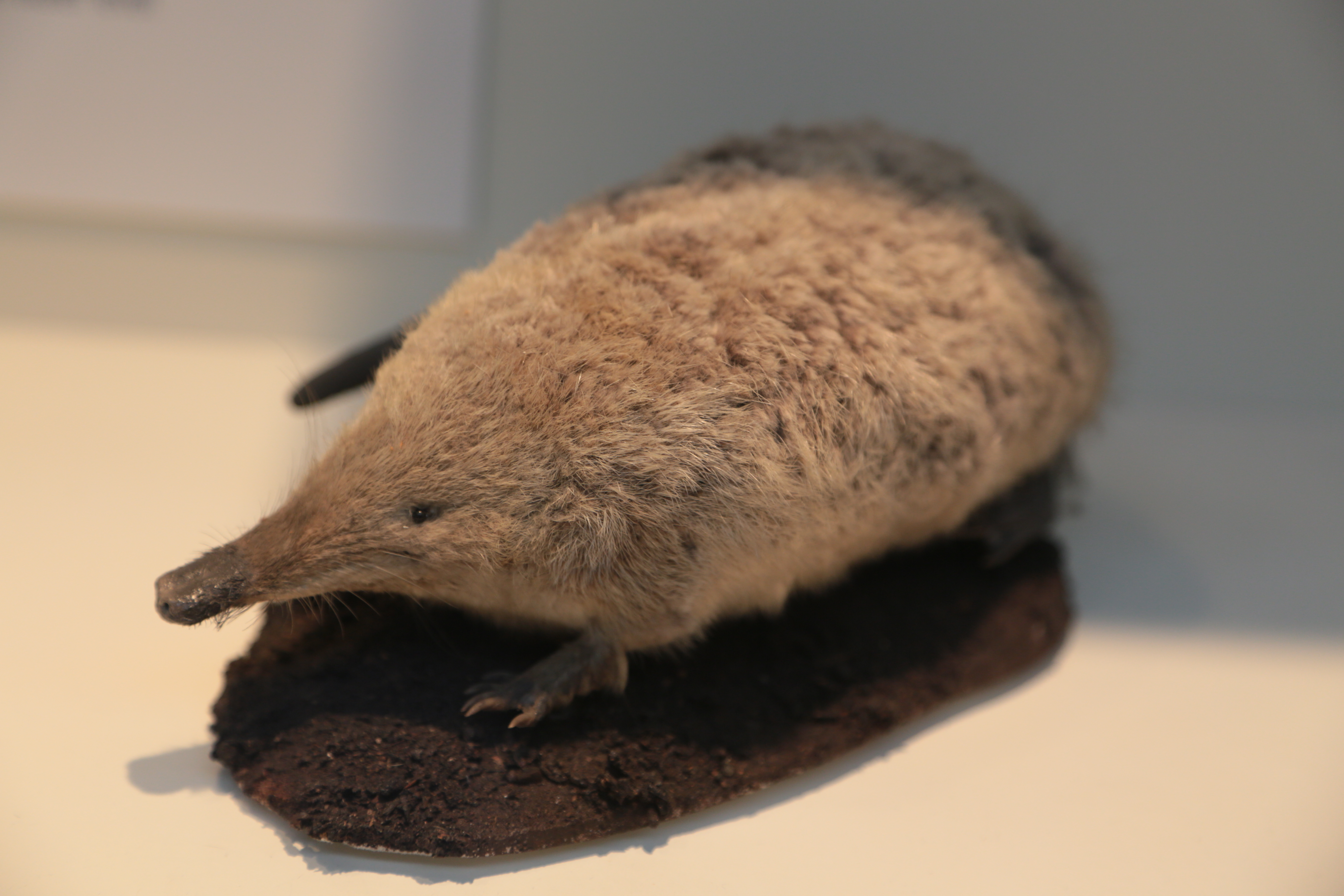 Russian desman (Desmana moschata), Natural History Museum, London, Mammals Gallery